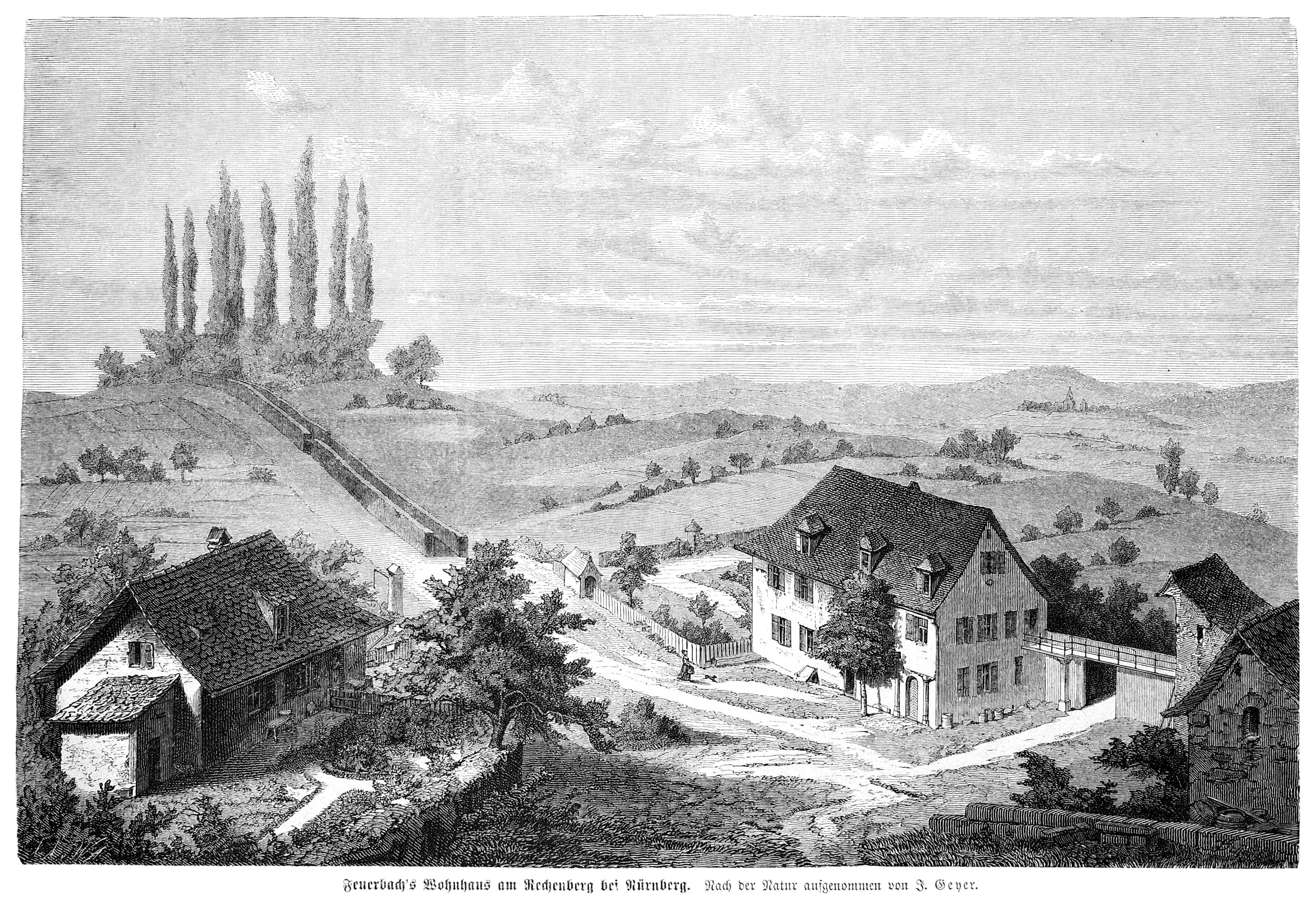 caption: "Feuerbach’s Wohnhaus am Rechenberg bei Nürnberg. Nach der Natur aufgenommen von J. Geyer."